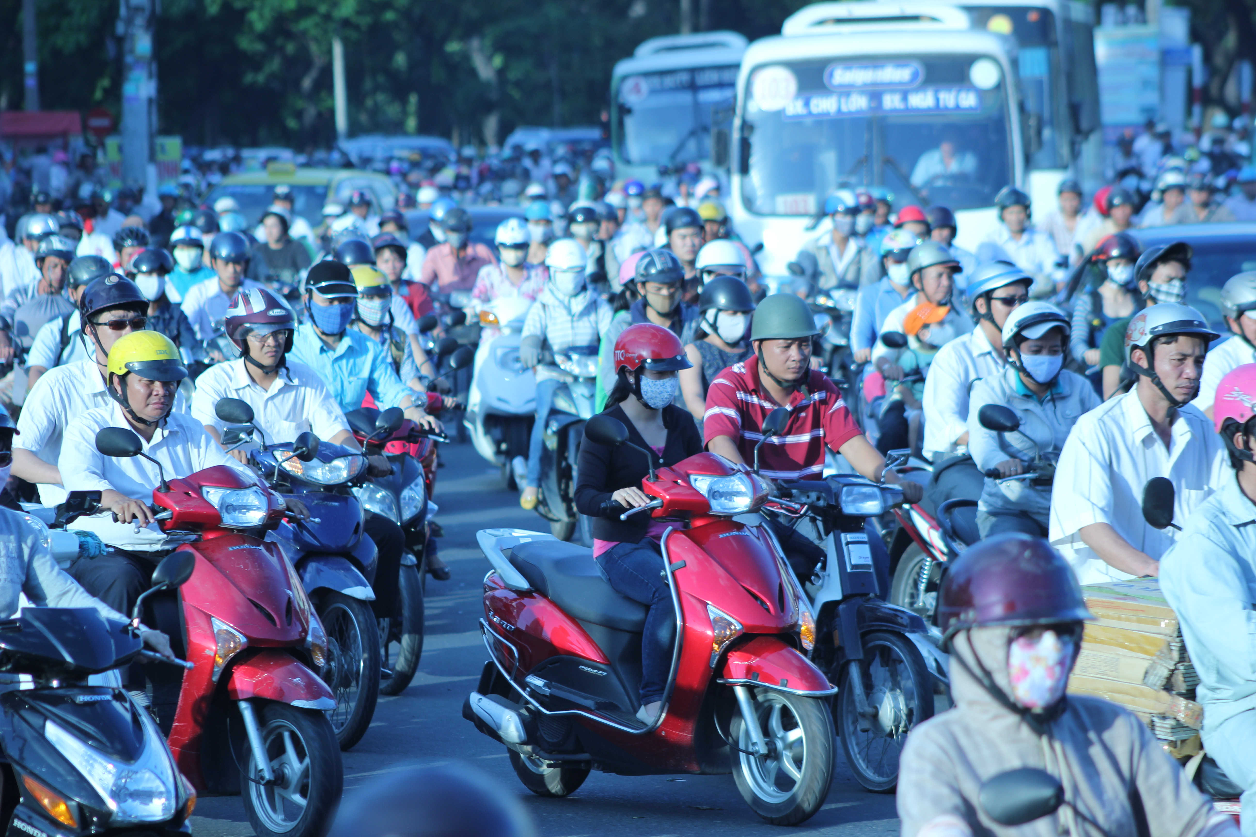 Overpopulation in Hồ Chí Minh, Vietnam.